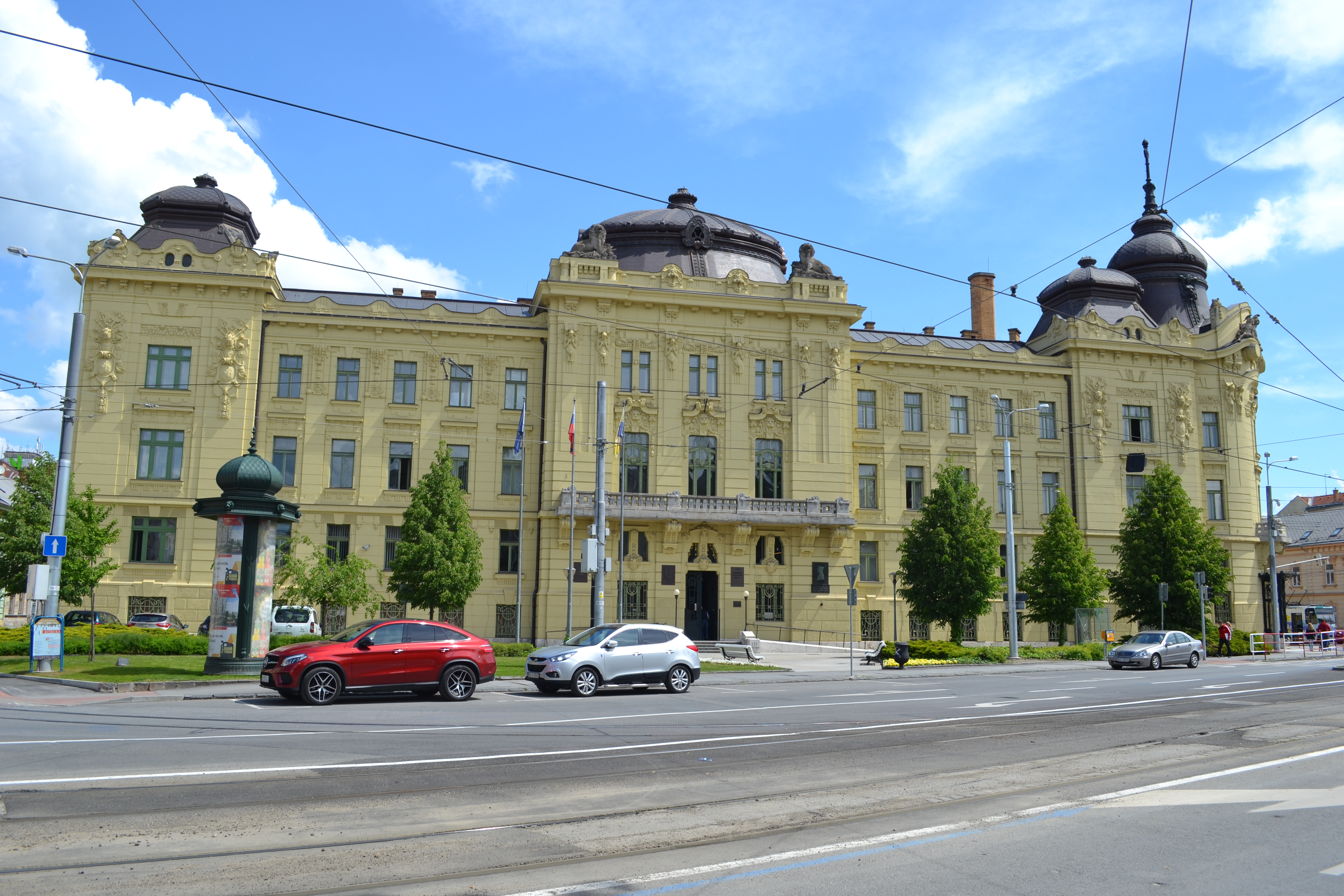 Office Košice Region (the former military headquarters)